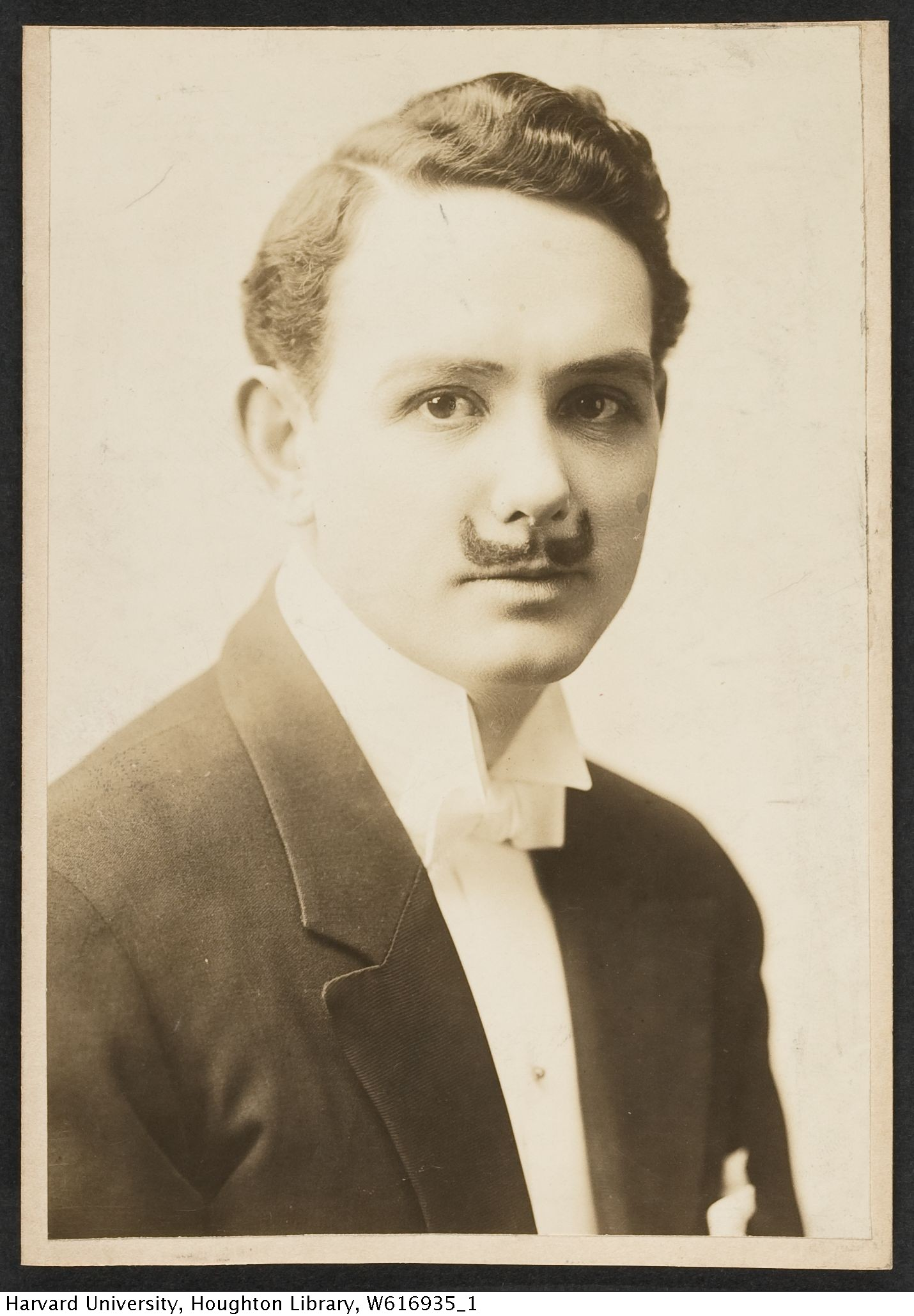 Cabinet card image of Canadian-American actor Donald Brian (1877-1948); promotional image for The Merry Widow (1907). From a collection dated 1918. TCS 1.3603, Harvard Theatre Collection, Harvard University